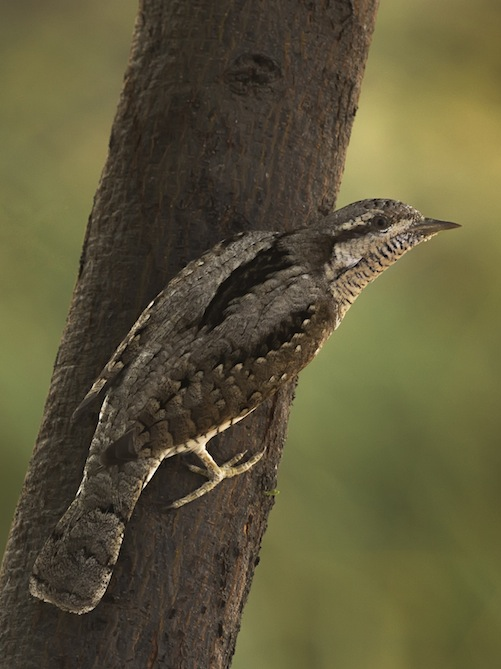 Individual from Tal Chhapar Sanctuary, Rajasthan